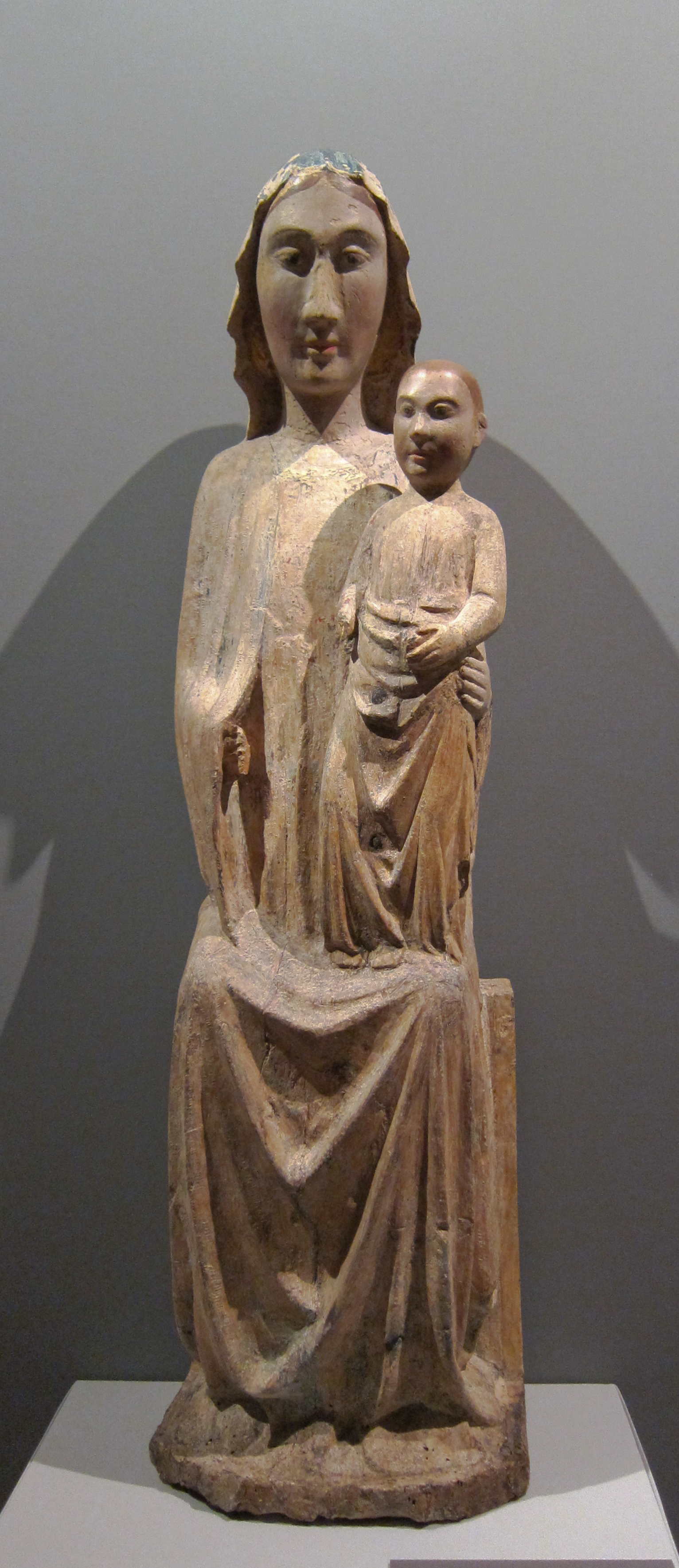 Enthroned Madonna with Christ Child, Master of Santa Caterina Gualino, 1st half of 14th century